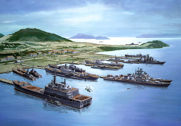 Artist's concept of Soviet ships in port at Cam Ranh Bay, Vietnam. This base and its adjoining airfield enhance the Soviet's military capabilities in the Pacific, Southeast Asian and Indian Ocean regions. From Soviet Military Power 1985.